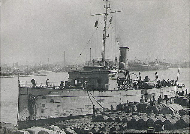 Cutter Ulua (later Haim Arlosoroff) in Marseille in 1946